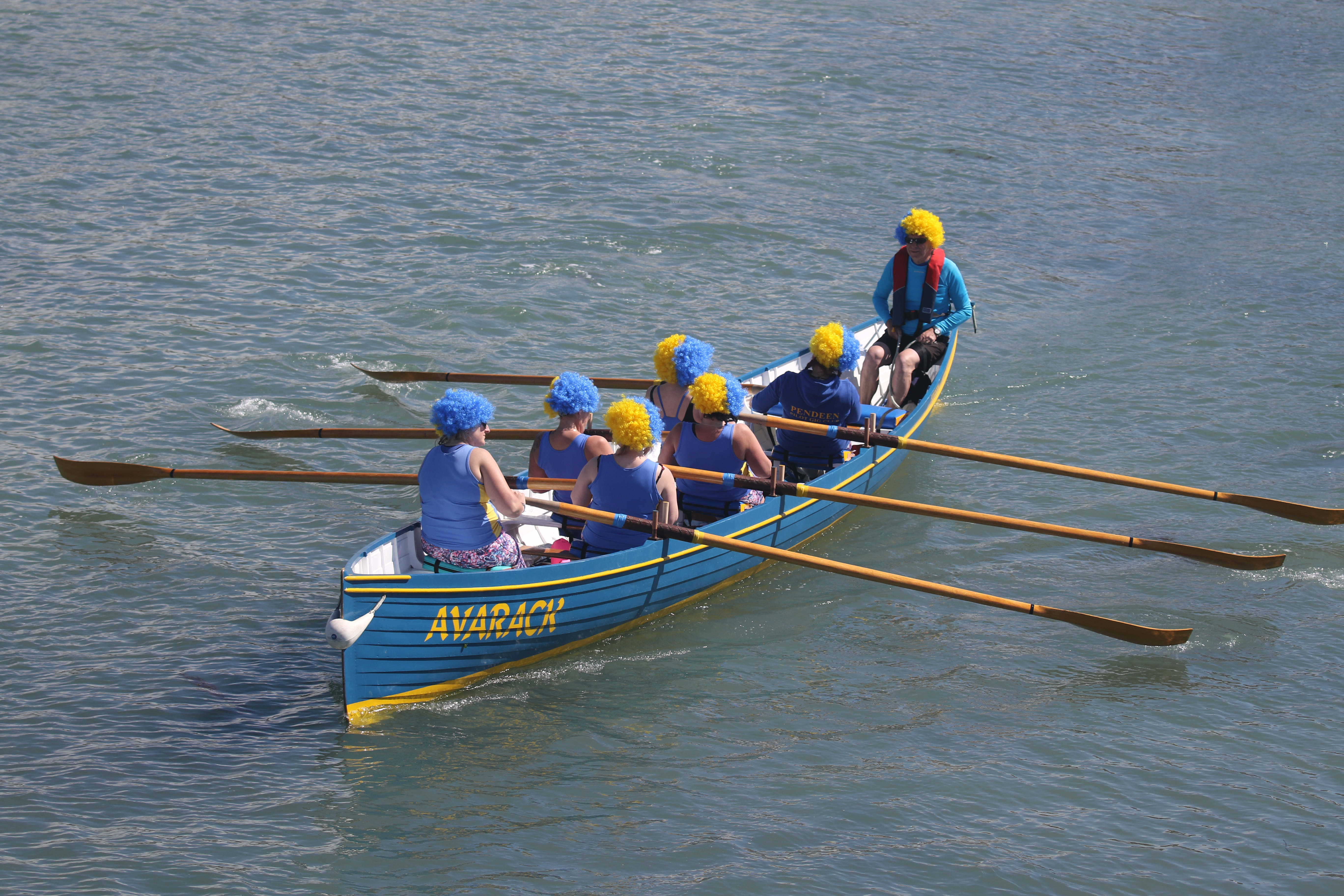 At the World Pilot Gig Championships